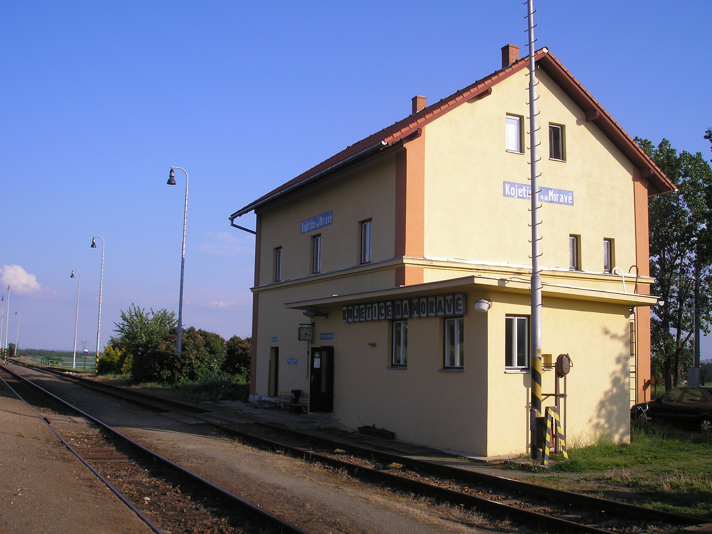 Railway station in Kojetice, CZ